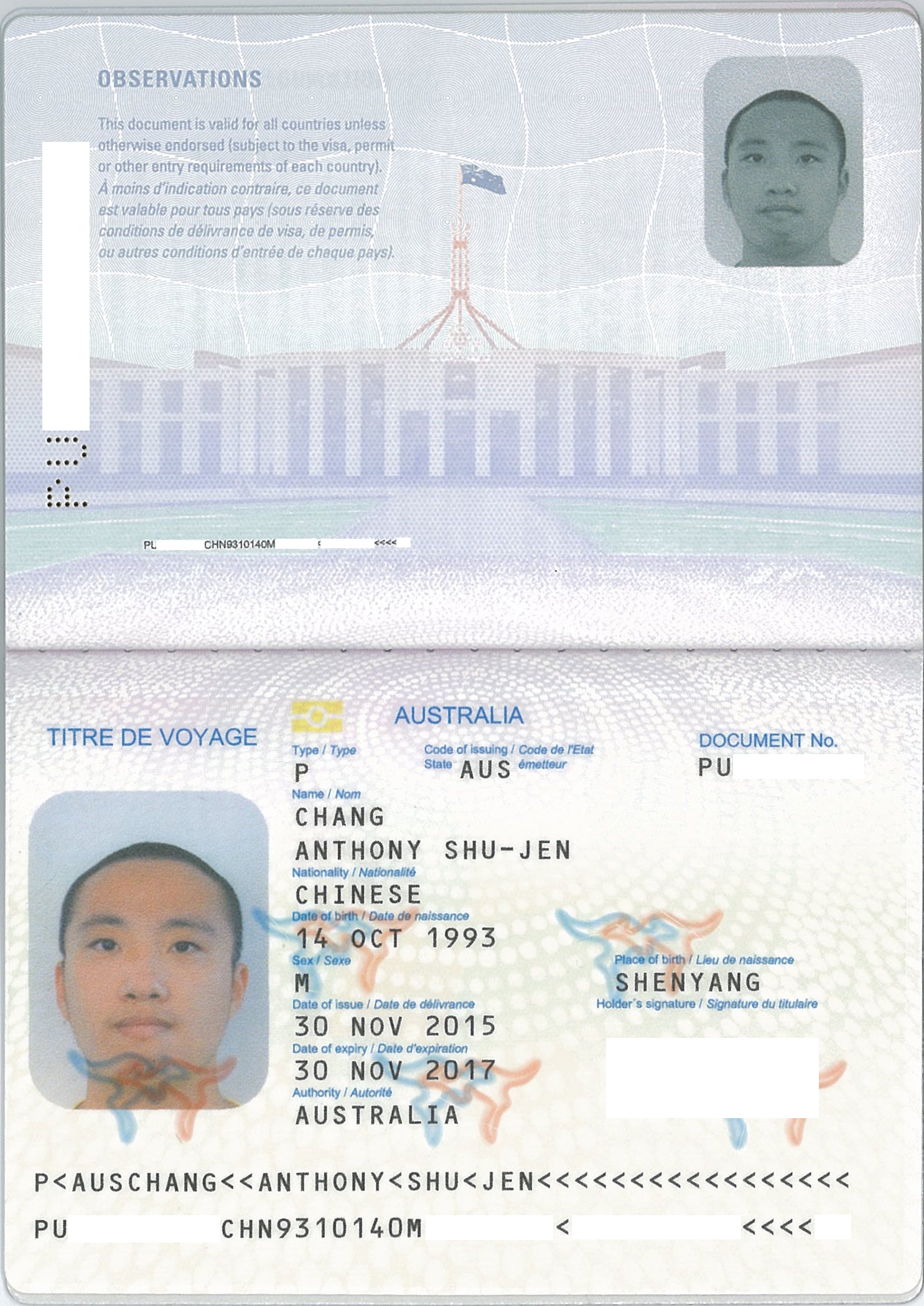 The bio-data page of an Australian Titres de Voyage (UN Convention Travel Document) issued to a Chinese refugee.